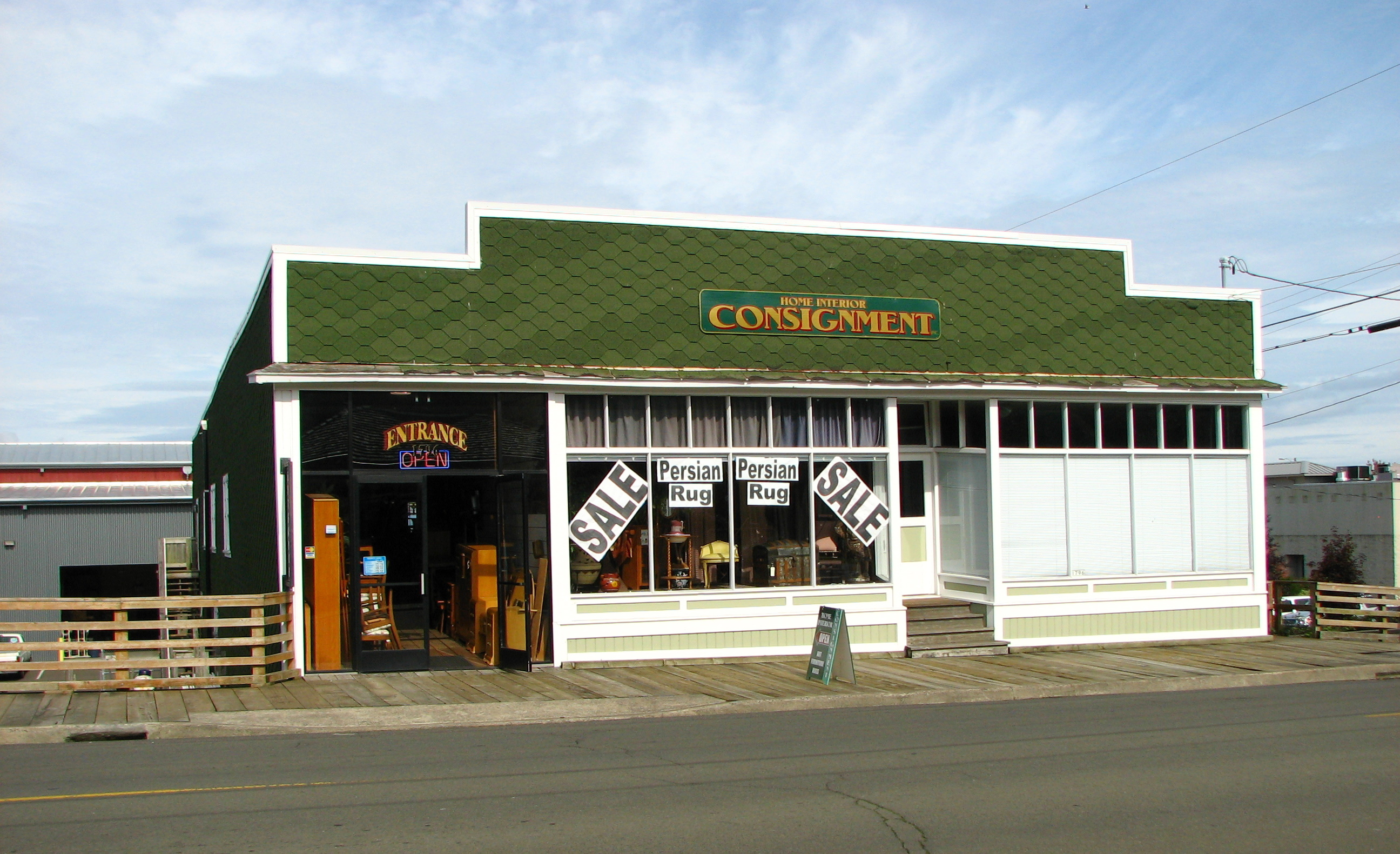 The historic Svenson Blacksmith Shop (built 1920), located at 1769 Exchange Street in Astoria, Oregon, United States, is listed on the US National Register of Historic Places.